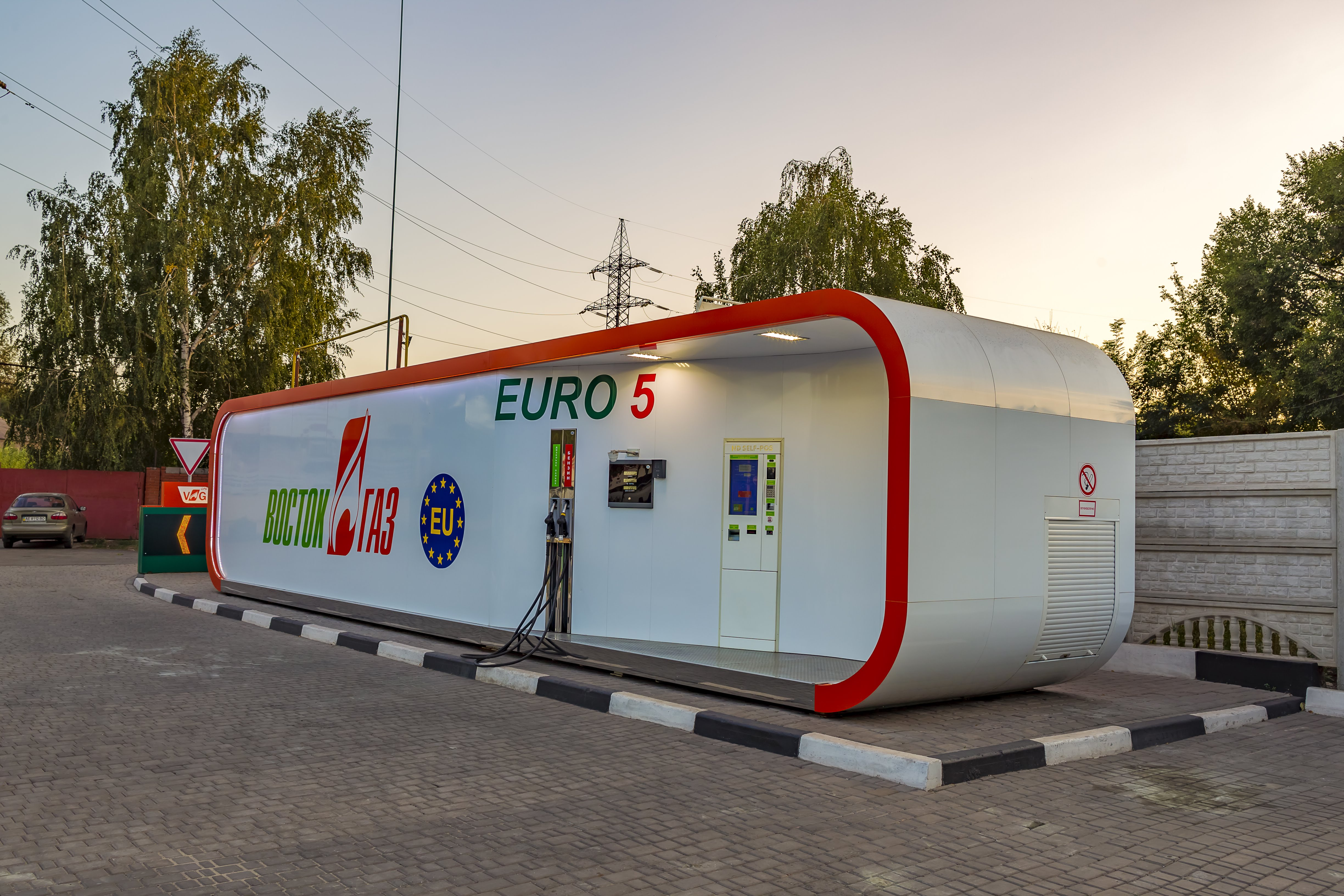 New era of filling stations - it's a portable filling stations (Gas station - VostokGaz, manufacturer - Robotanks LLC comapny)